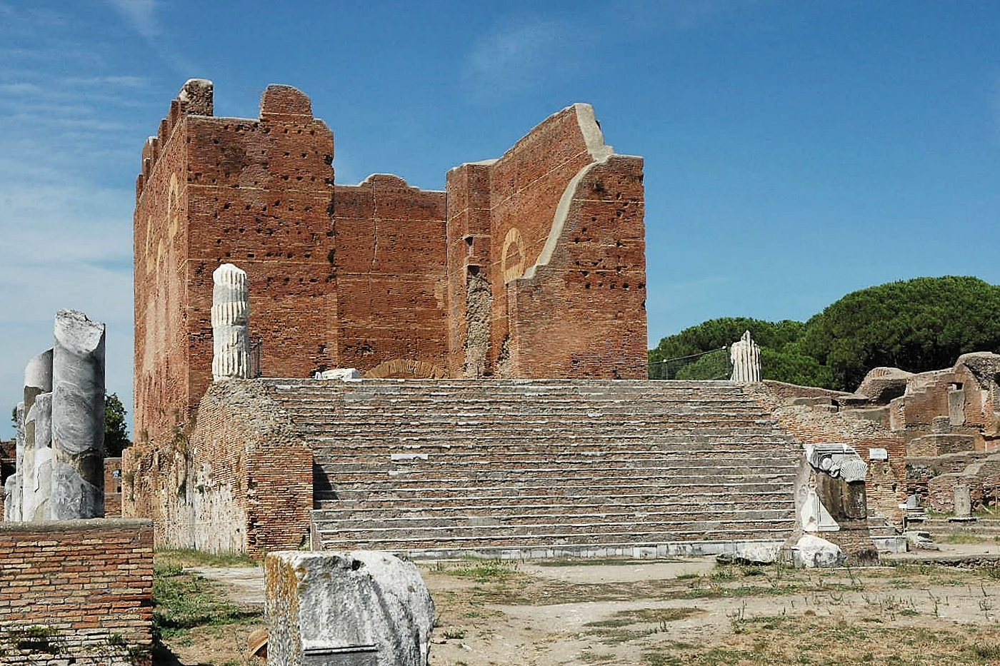 The Capitolium, a temple dedicated to Jupiter, Juno and Minerva. Ostia Antica, Latium, Italy.